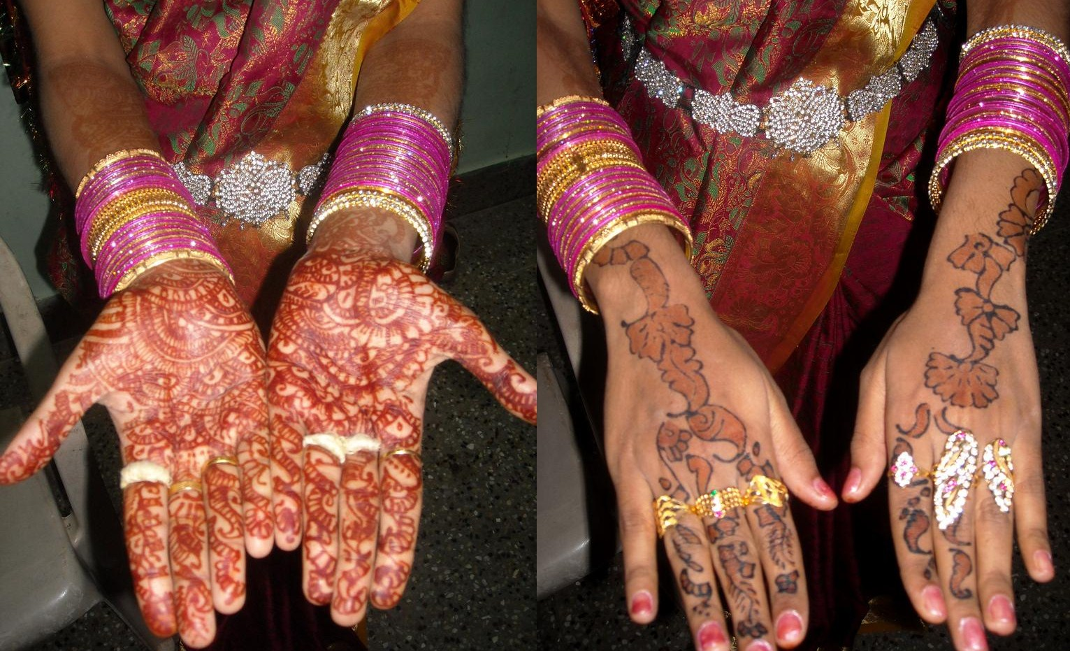 Henna applied to a Muslim bride's hands, Madurai, Tamil Nadu, India